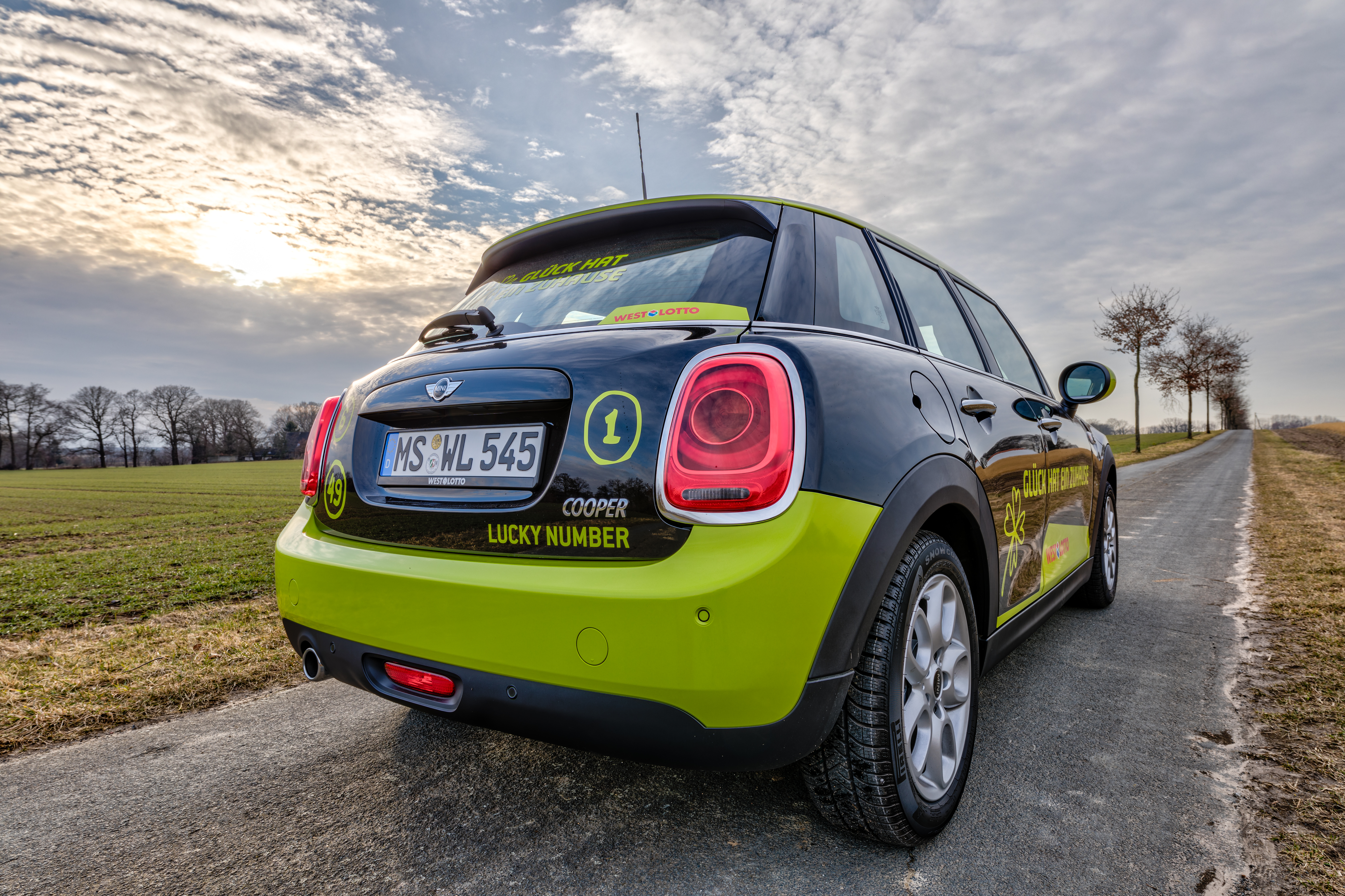 BMW Mini in the Dernekamp hamlet, Kirchspiel, Dülmen, North Rhine-Westphalia, Germany